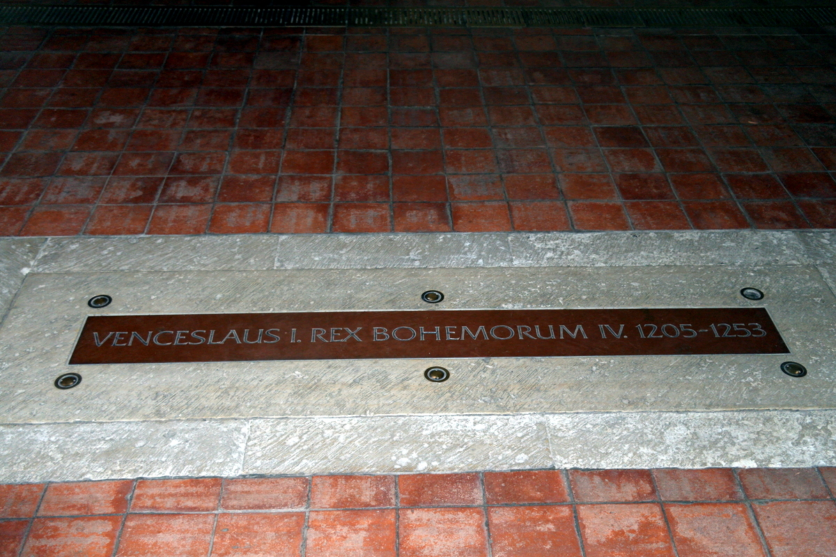 Convent of Saint Agnes in Prague, Old Town (Prague) , the capital city Prague. Tombstone of King Wenceslaus I of Bohemia.